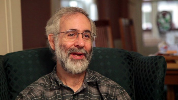 Dan Bricklin